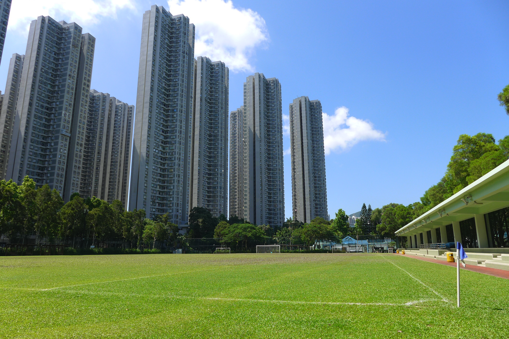 Tsuen Wan Riviera Park Football Field